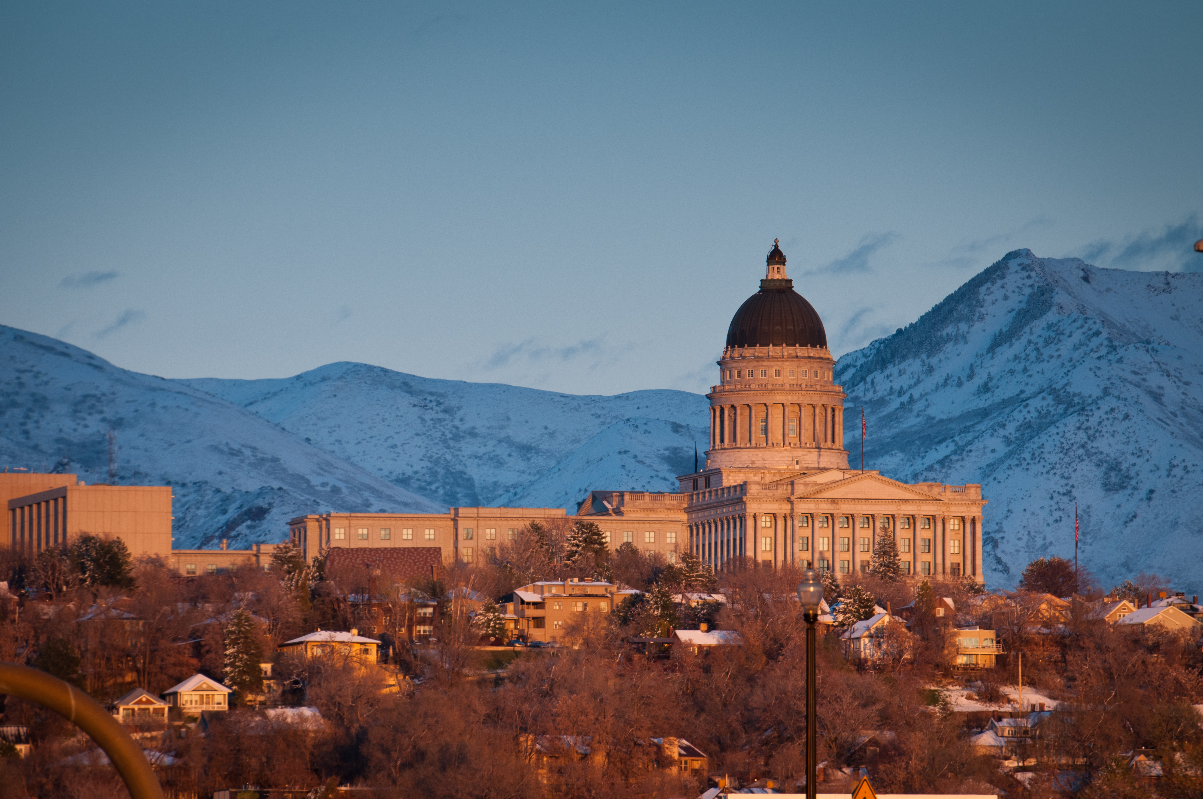 The Utah State Capitol sitting atop "Capitol Hill" in Salt Lake City; as seen on April 3, 2011.